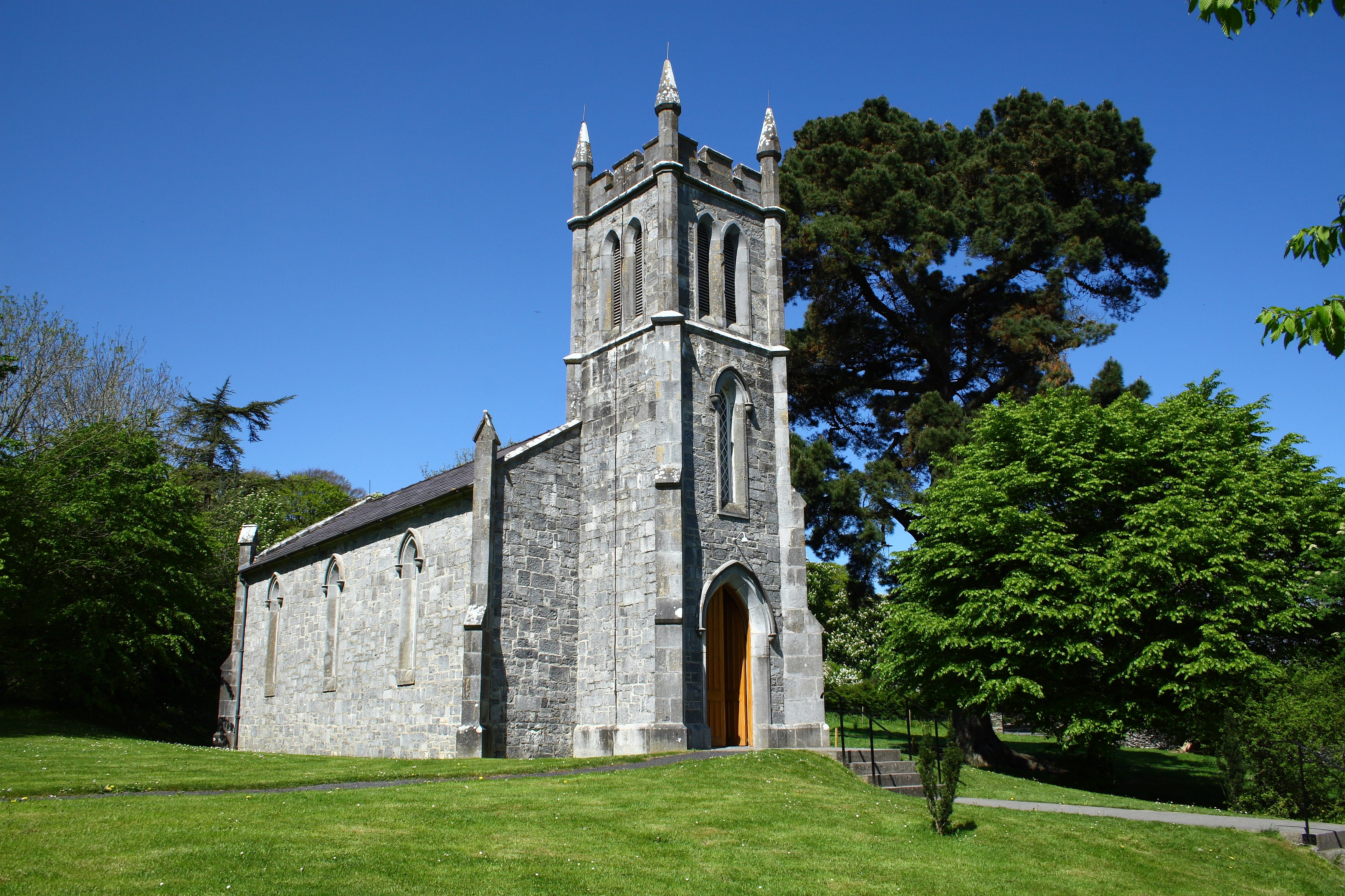 Ardcroney Church in Folk Park at Bunratty Castle - Ireland